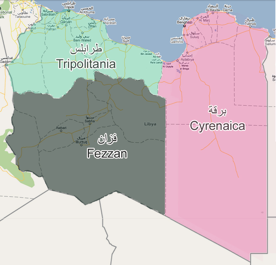 Tripolitania Fezzan Cyrenaica Historical Borders